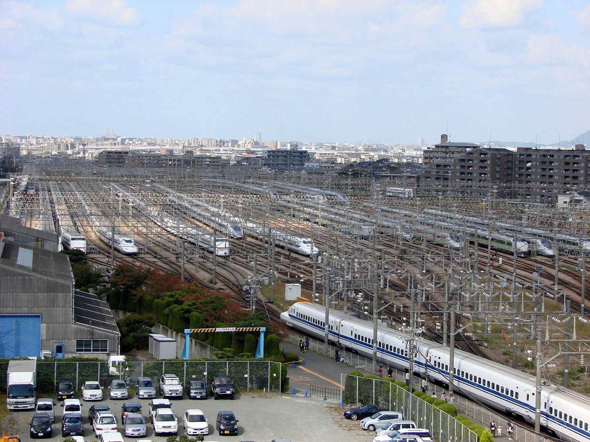 JR West Hakata Car Maintenance Center